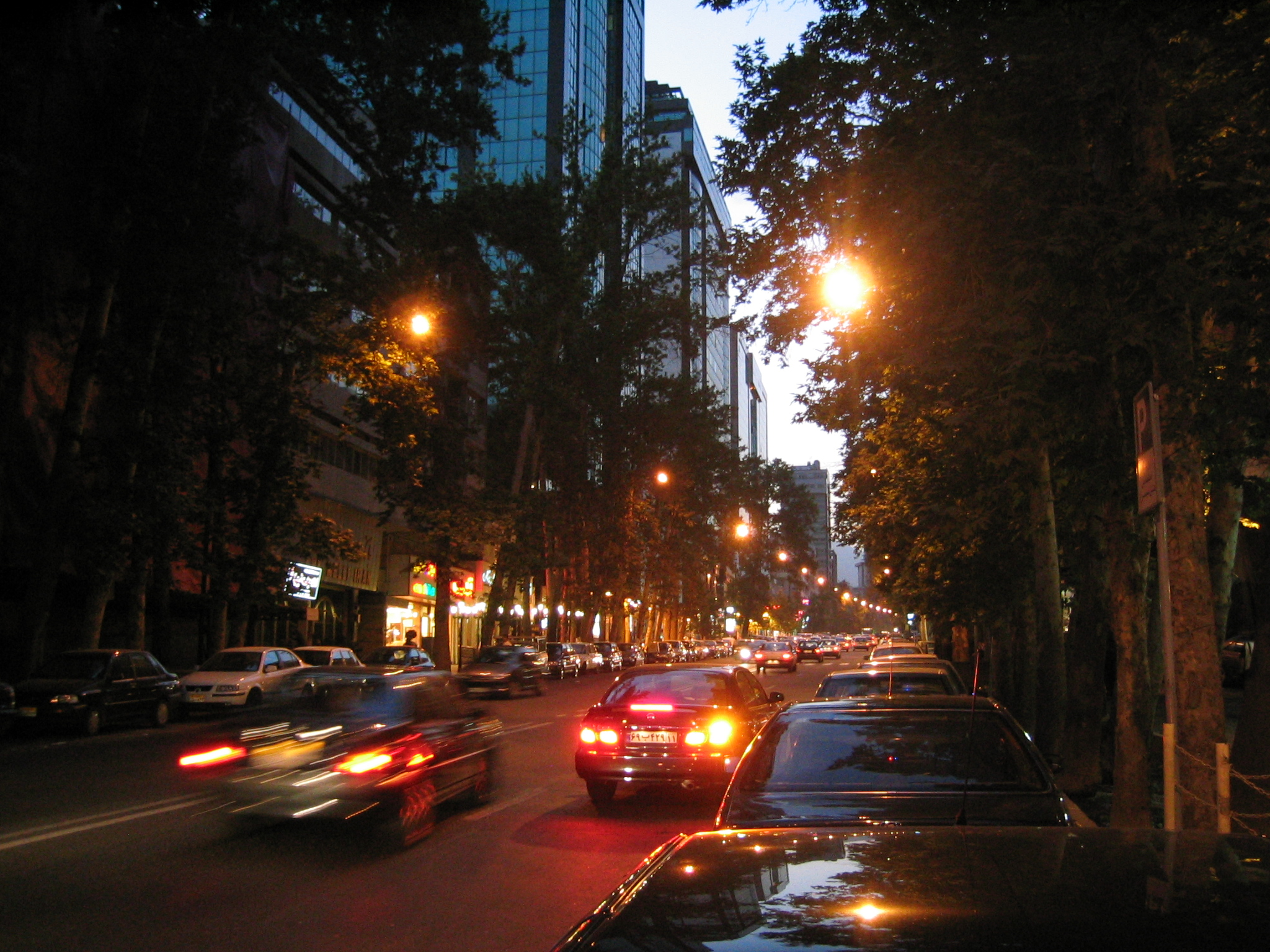 Valiasr Avenue, near Saei Park, north central Tehran. Photo taken by myself, June 29 2005